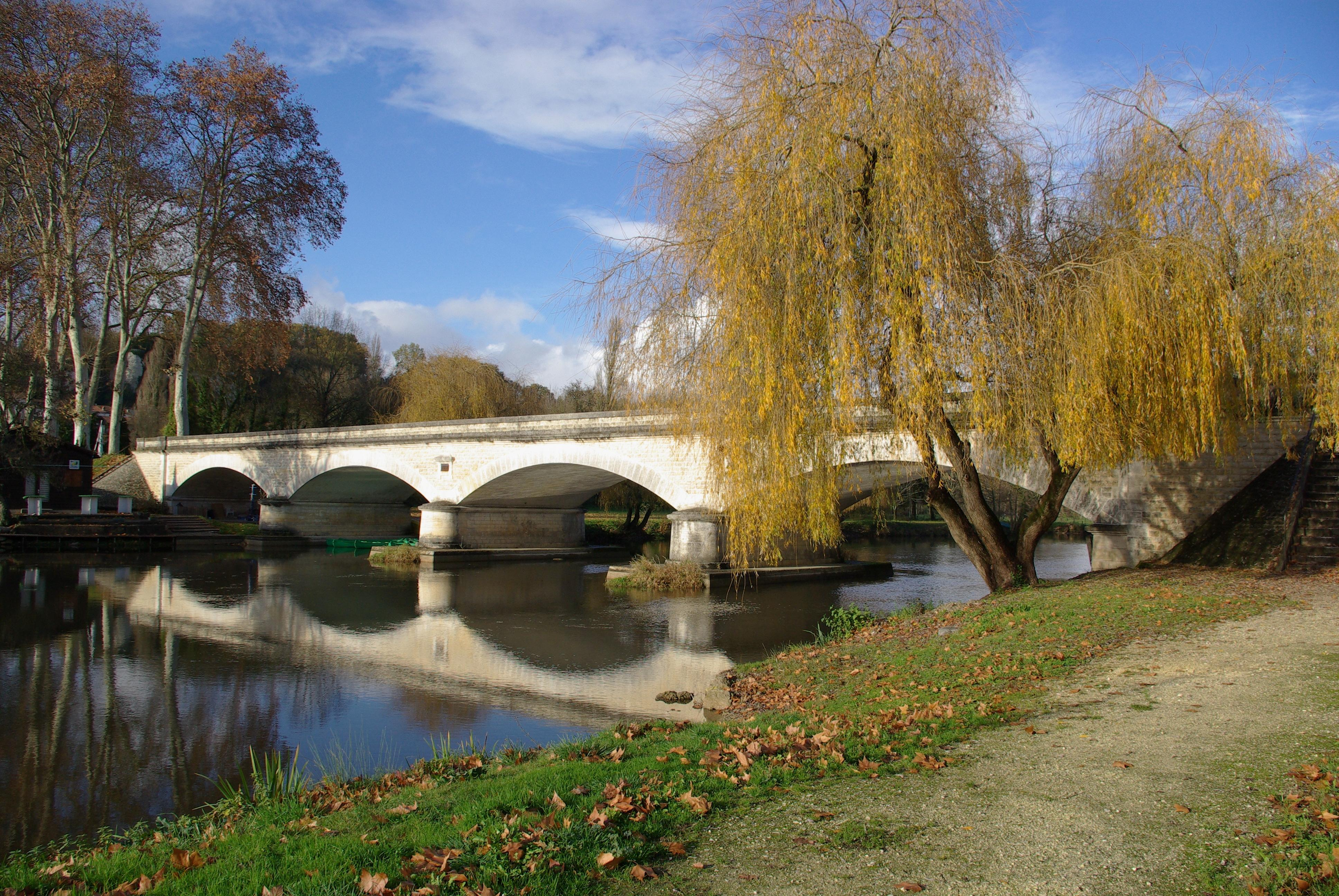 The bridge over the river Dronne, as seen from south, Aubeterre-sur-Dronne, Charente, France.